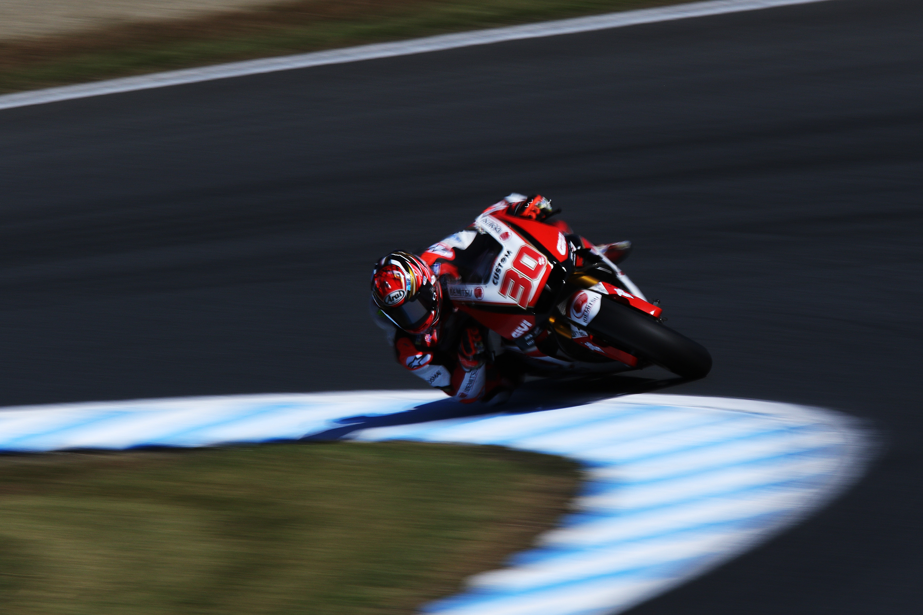 2018.10.21 MotoGP Rd.16 Motul Grand Prix of Japan Twin Ring MOTEGI MotoGP Class Warm Up LCR Honda IDEMITSU 30 中上貴晶 Honda RC213V